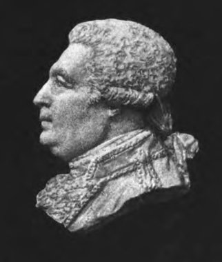 Cameo of Dennis O'Kelly, the owner of the Thoroughbred Eclipse and noted turfman.